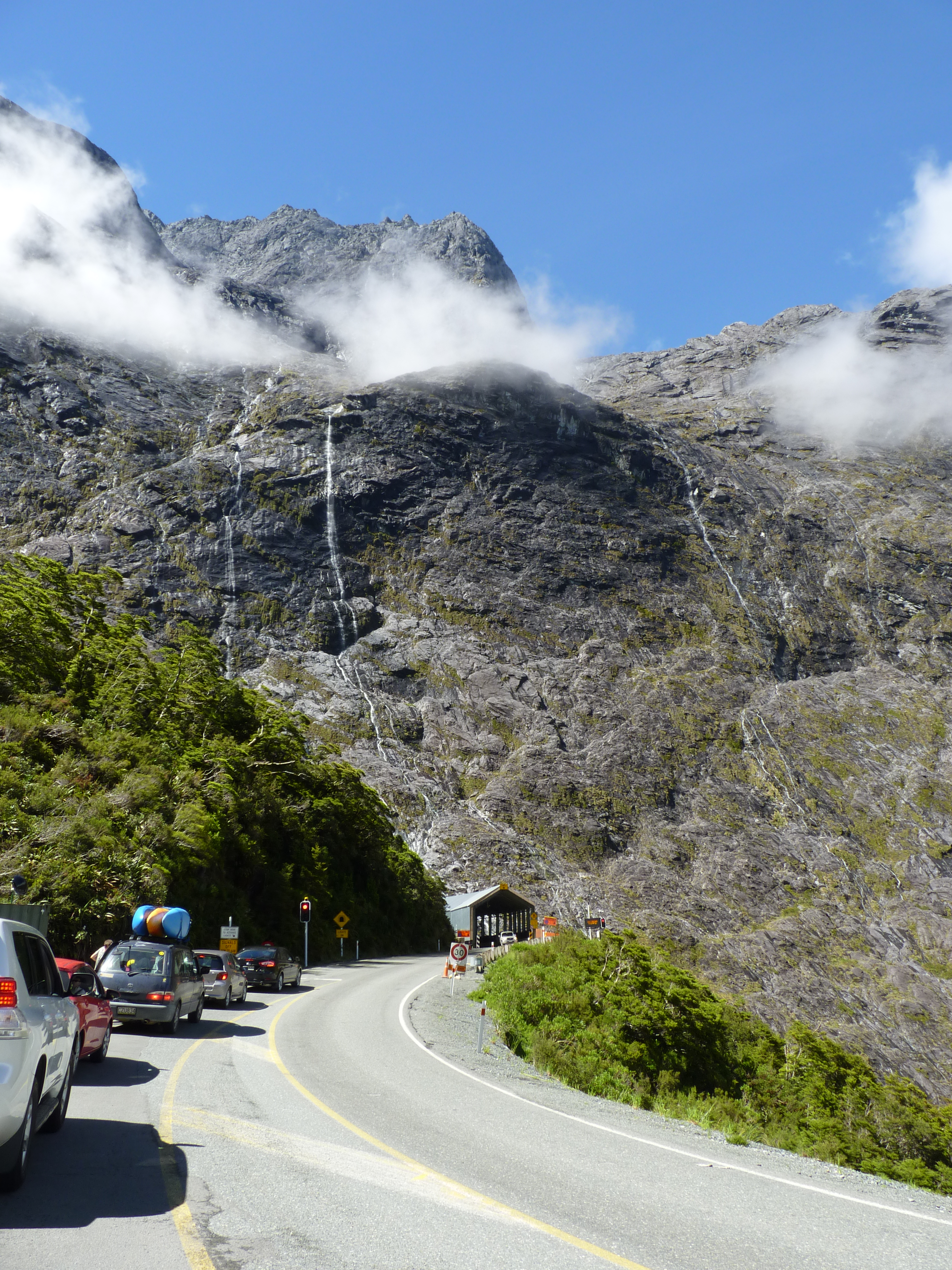 Milford Sound, South Island, New Zealand